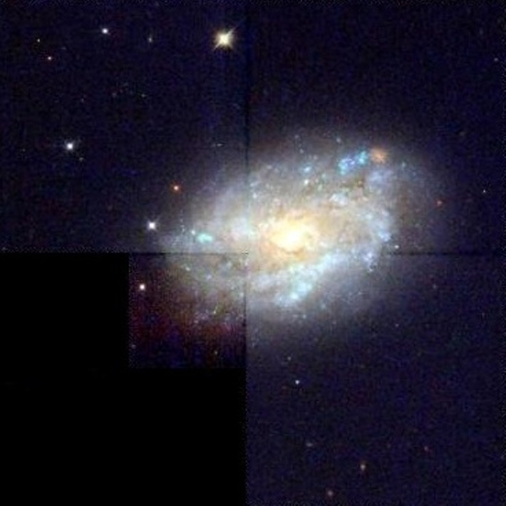 NGC 4790 - Hubble Space Telescope - Hubble Legacy Archive